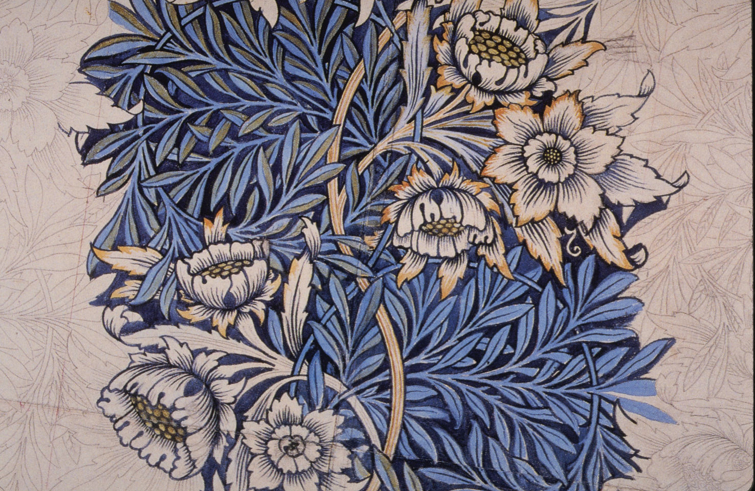 Drawing for block-printed fabric Tulip and Willow by William Morris. (Identification from Linda Parry, William Morris Textiles, New York, Viking Press, 1983, ISBN 0-670-77074-4, p. 147)